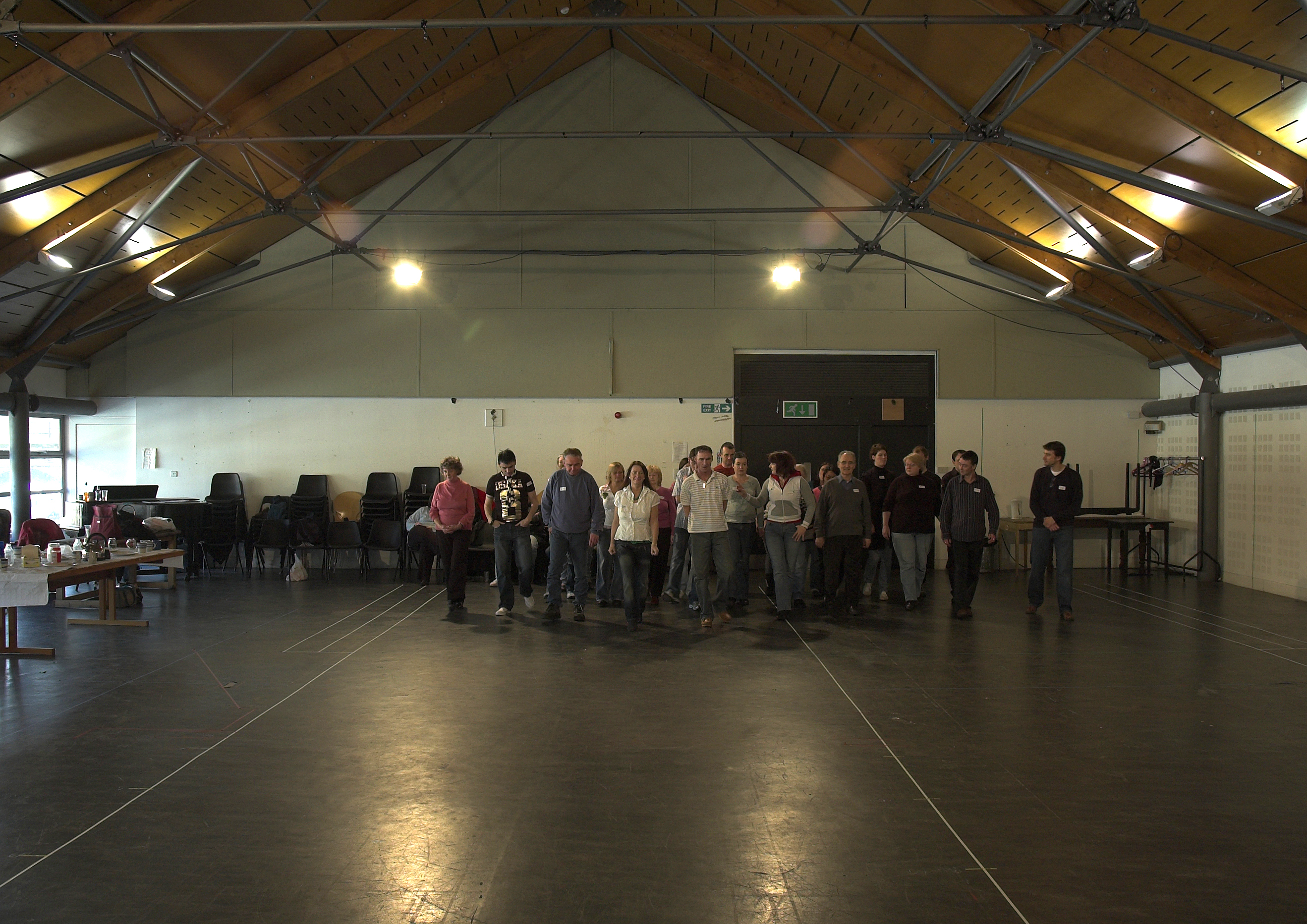 Citizens Theatre Mainstage